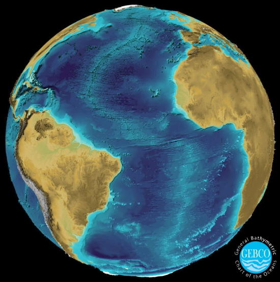 Atlantic 3D-visualisation made by Martin Jakobsson at the Center for Coastal and Ocean Mapping/Joint Hydrographic Center, University of New Hampshire, using Fledermaus software.